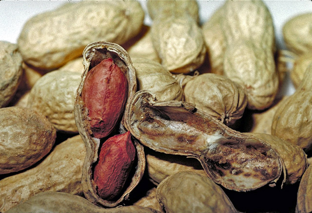 Close up peanuts.